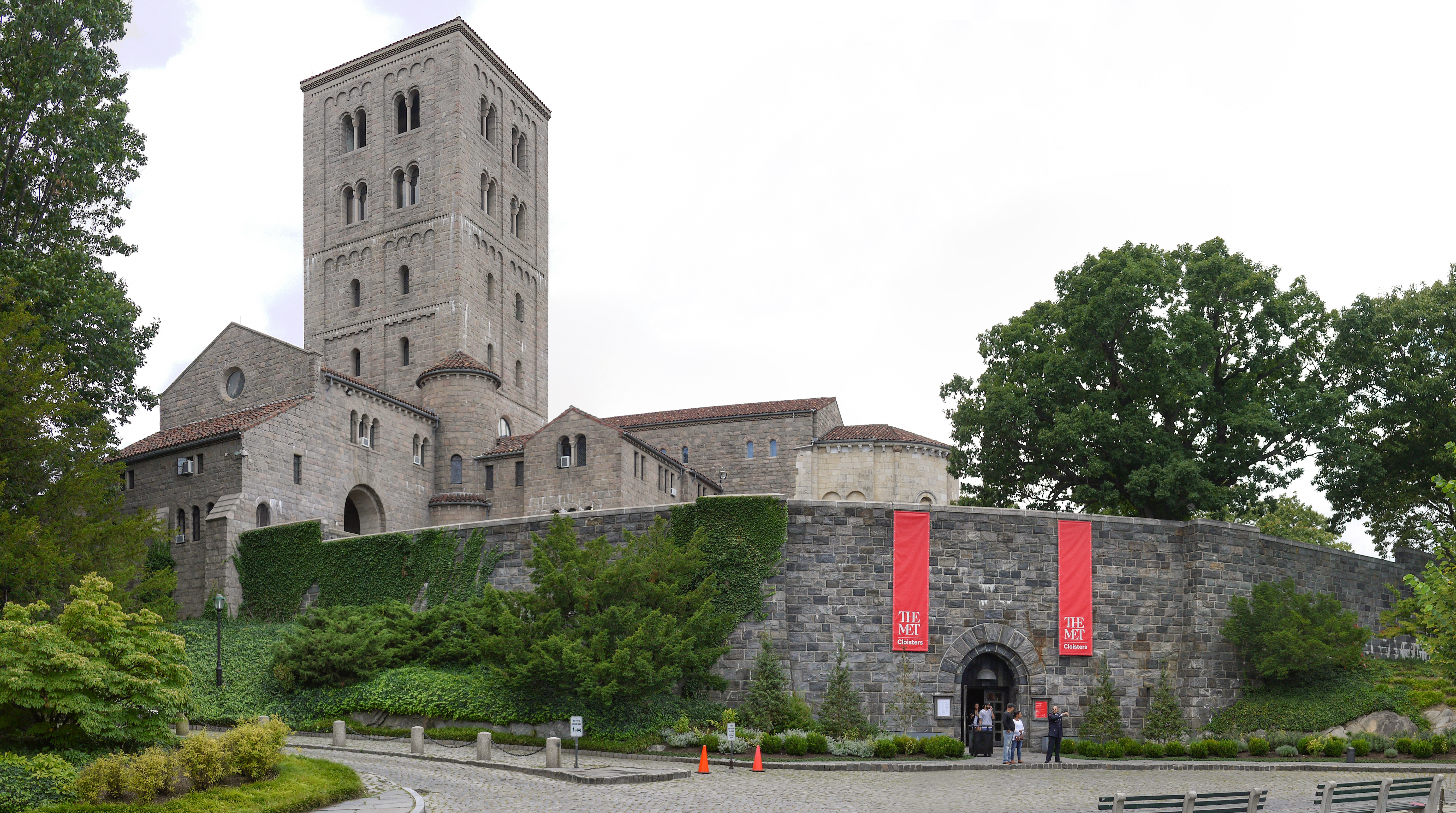 The Met Cloisters